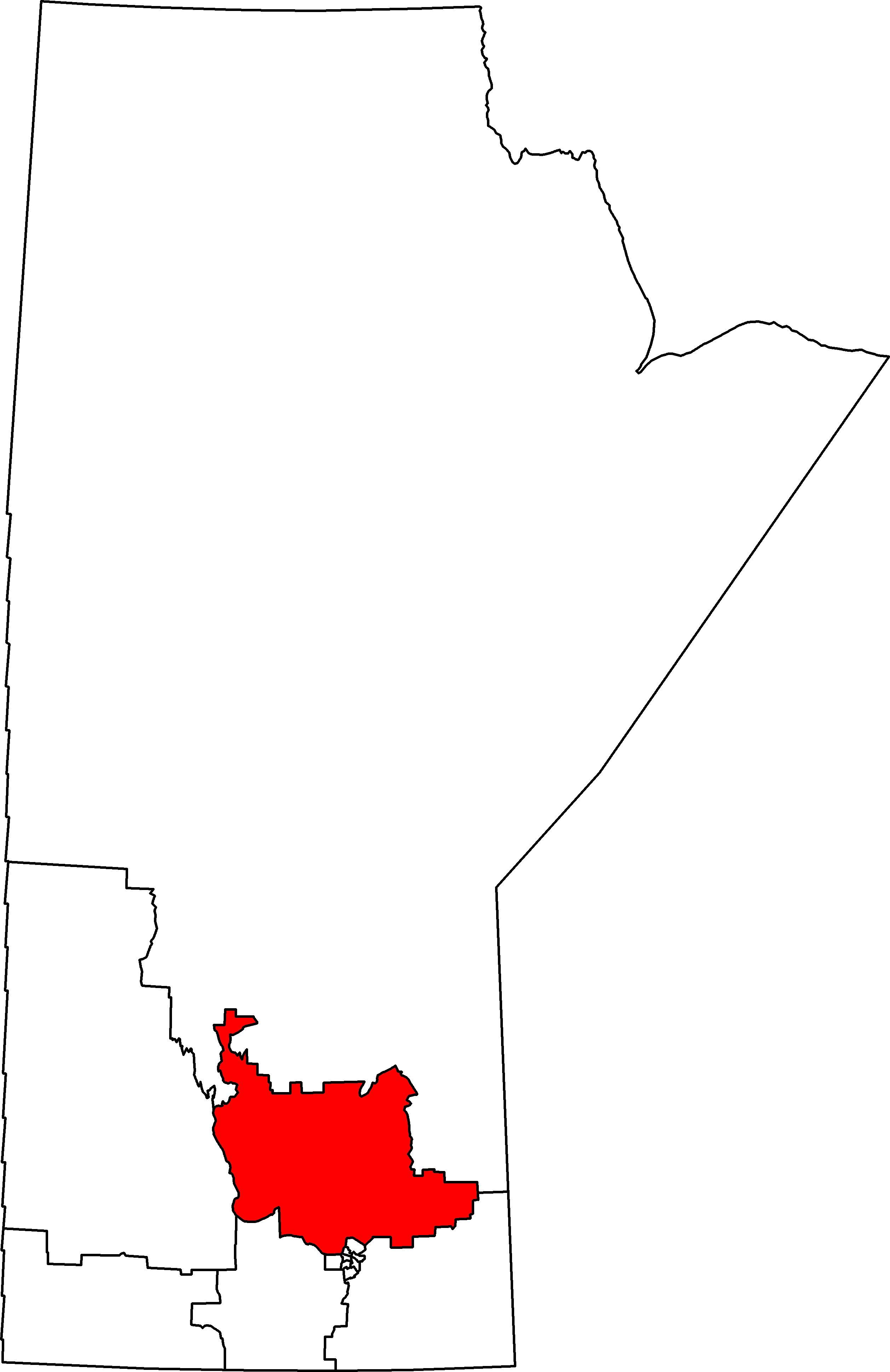 Federal Electoral District in Manitoba, Canada as of the 2013 Representation Order.